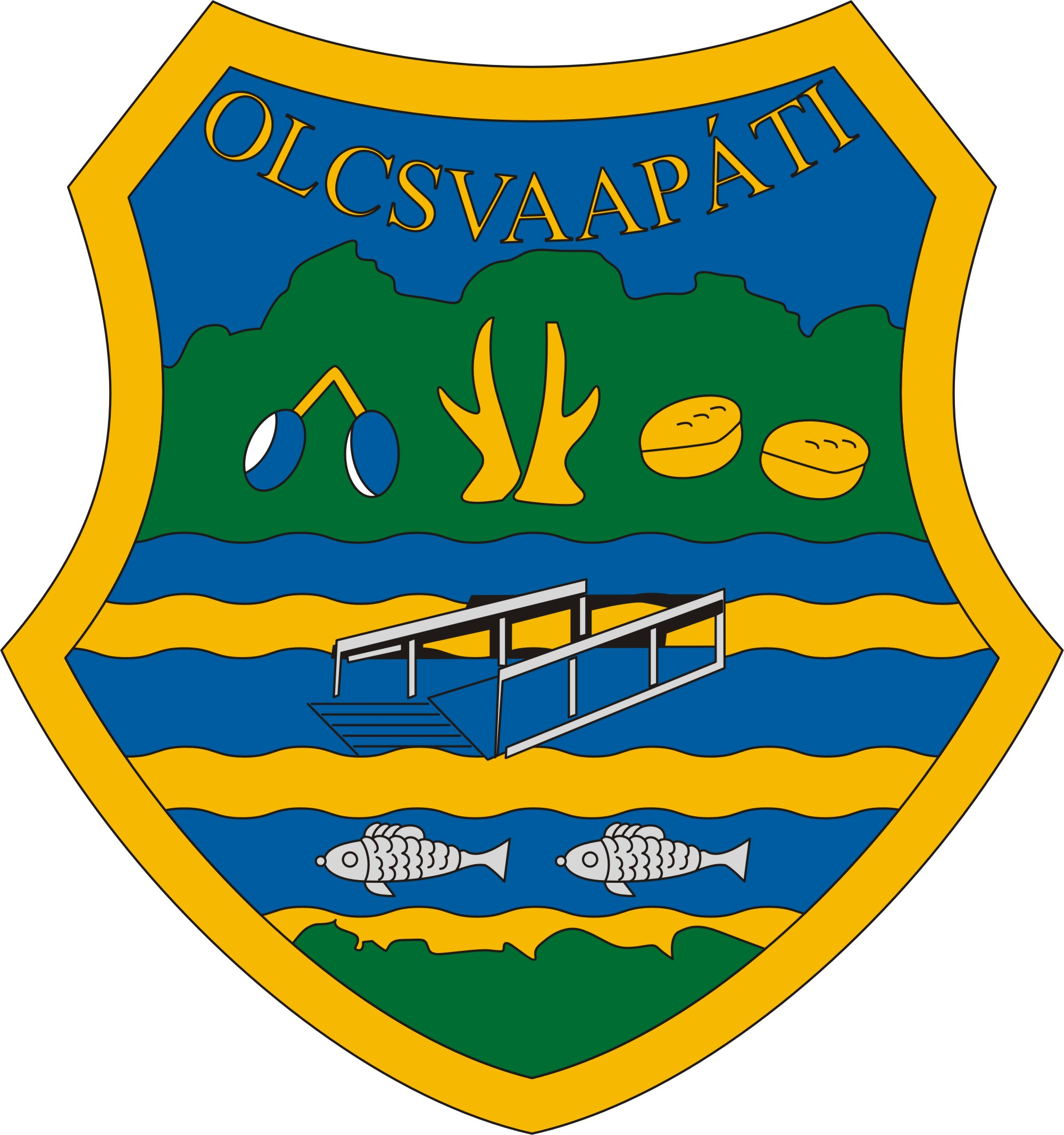 Coat of arms of Olcsvaapáti, Hungary